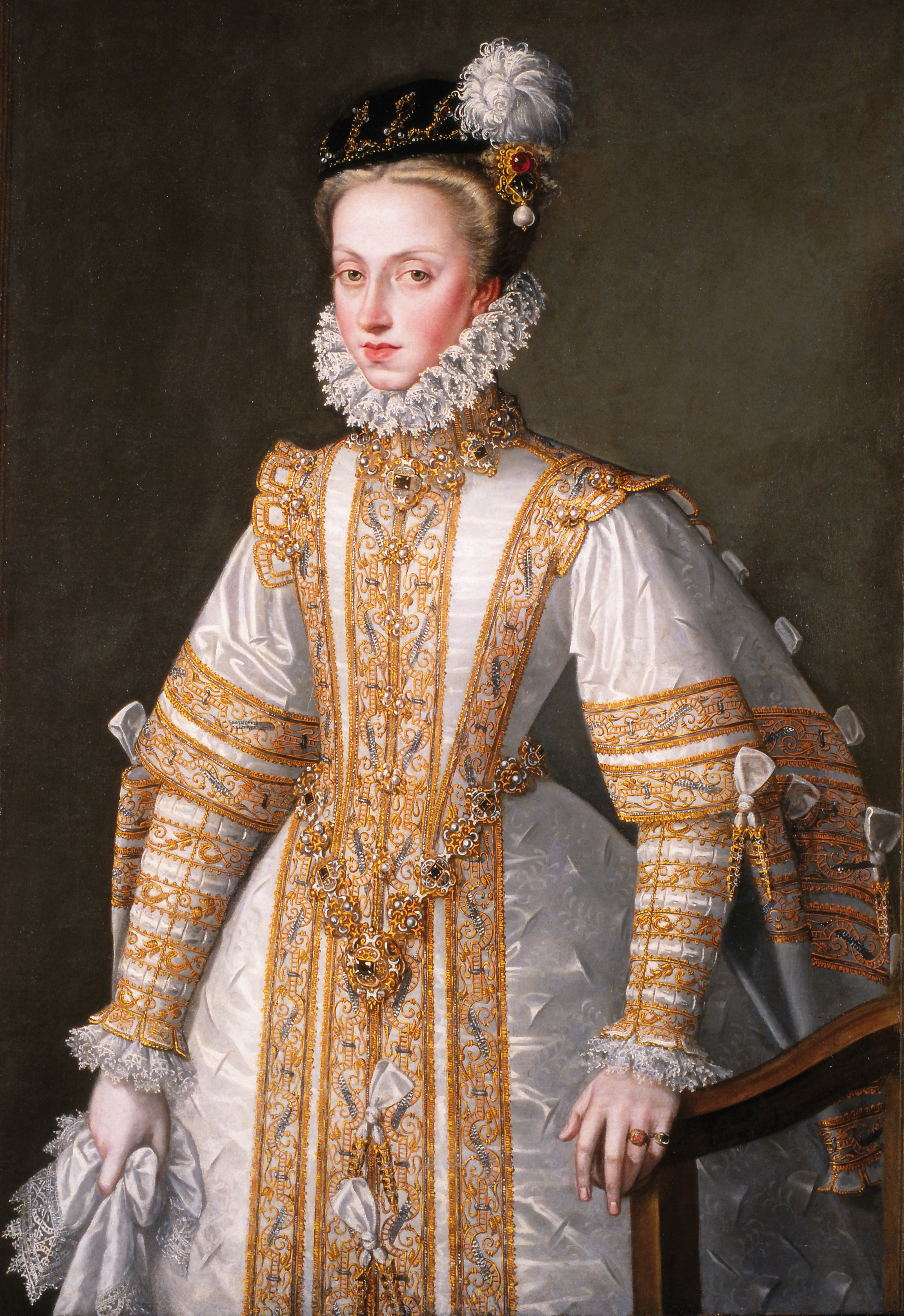 Portrait of Anne of Austria, queen of Spain.